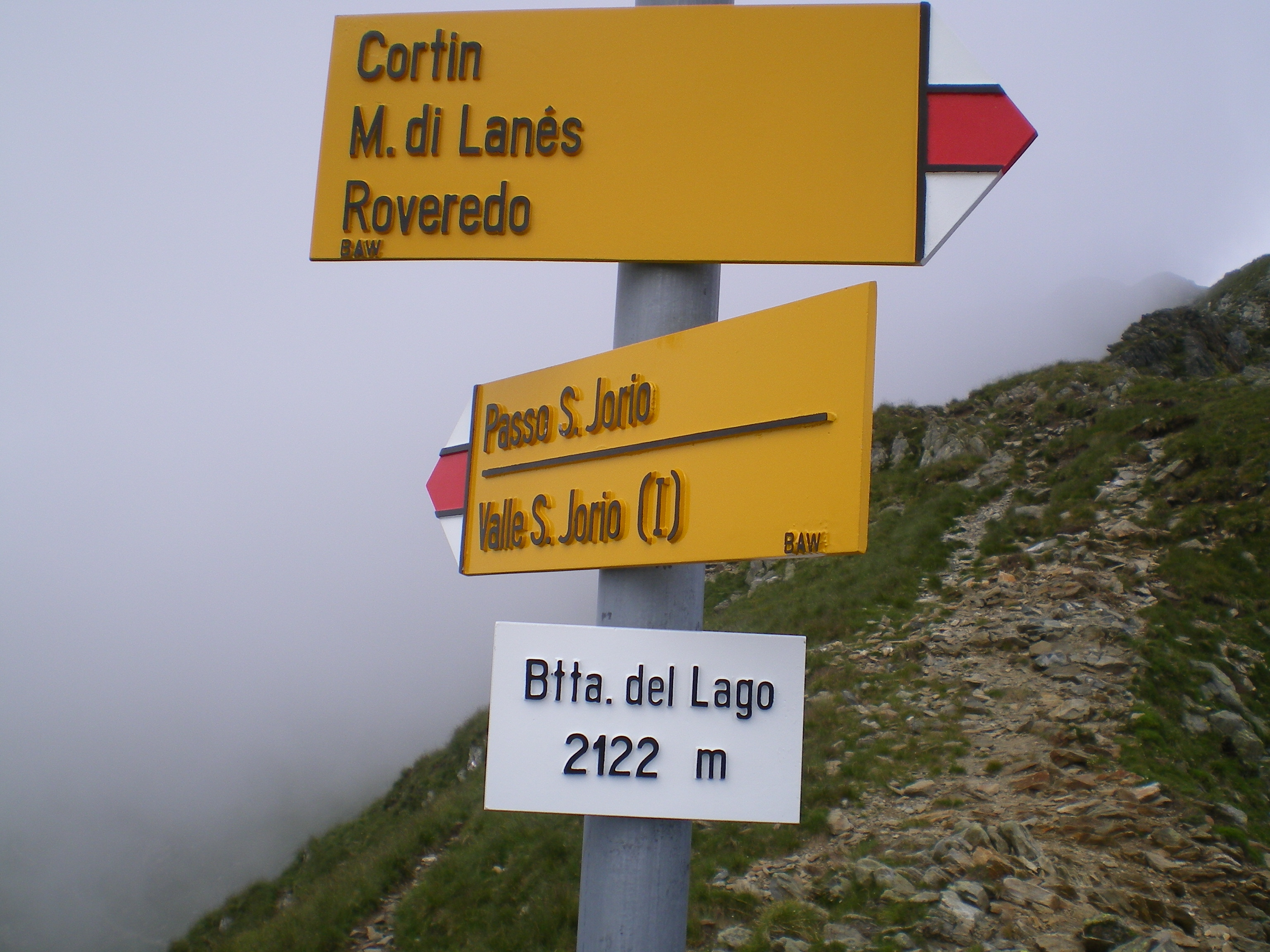 The signs to reach S.Jorio on the "Alta Via del Lario"